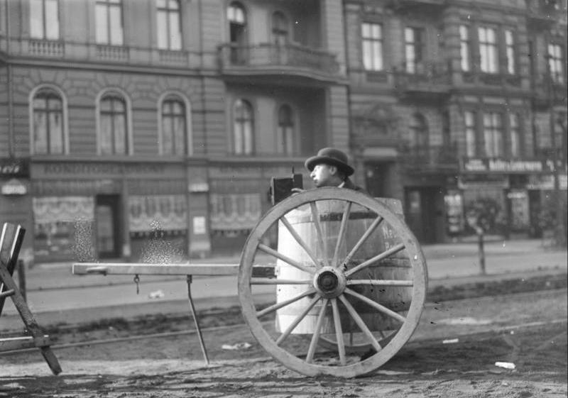 Originbal description from Bundesarchiv: Photographer with camera in water cask The photo correspondent as detective. Some well known people are not eager to be photographed. Yet this photographic reporter (an early "Paparazzi") had been charged by his employer, a newspaper, with obtaining such a picture, without a clear idea of how to accomplish this. This photographer came up with a creative solution. He hid in a water barrel and waited until his subject emerged from their house, capturing the photograph without being detected. [Photographer ("Paparazzi") with photo apparatus in water cask]